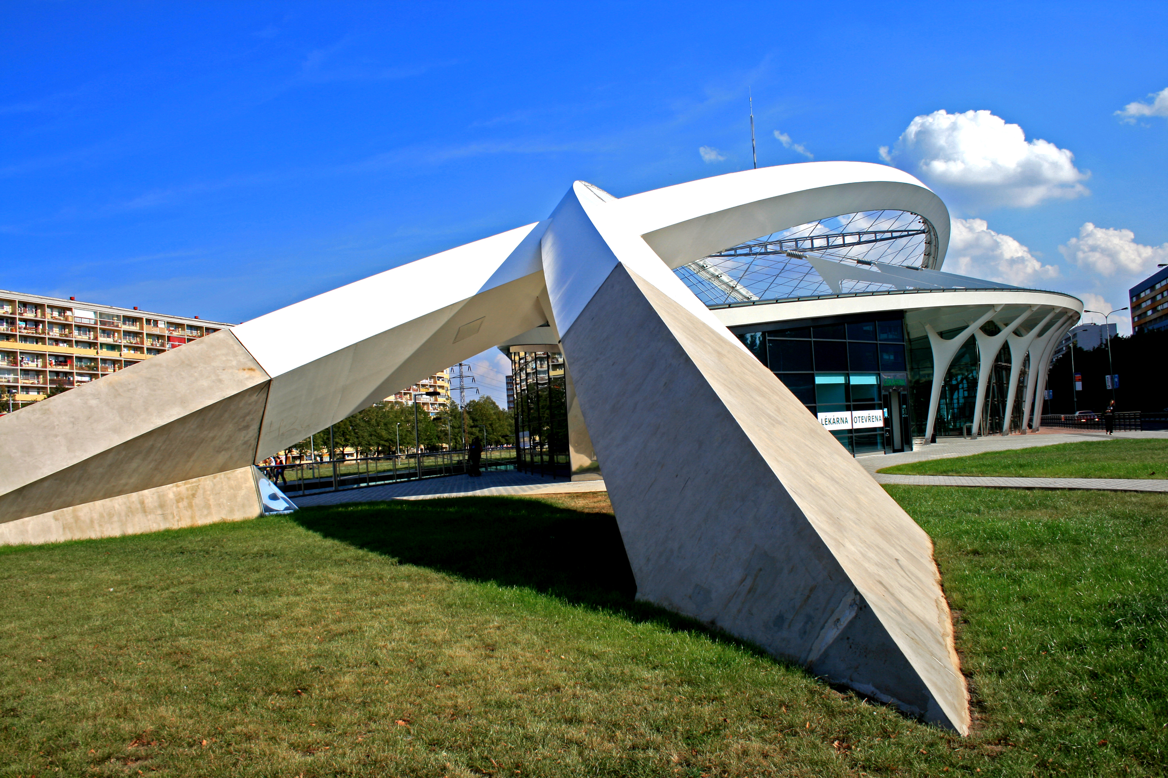 Prague Metro station Střížkov